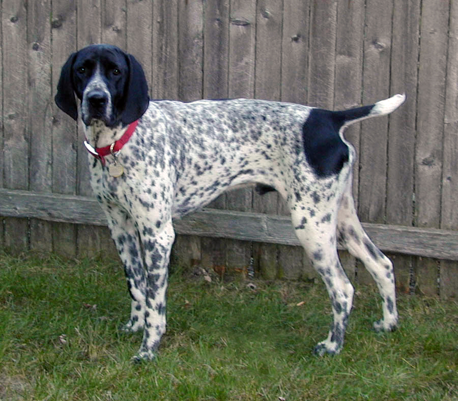 Beaudreux, 65 to 75 pounds, born 2002. Available for stud. Clocked running at 35 mph and still going. Excellent bird hunter. Extremely affectionate and very possessive. Removed watermark read: "Beaudreux Owner:Thurlow Midland, MI"